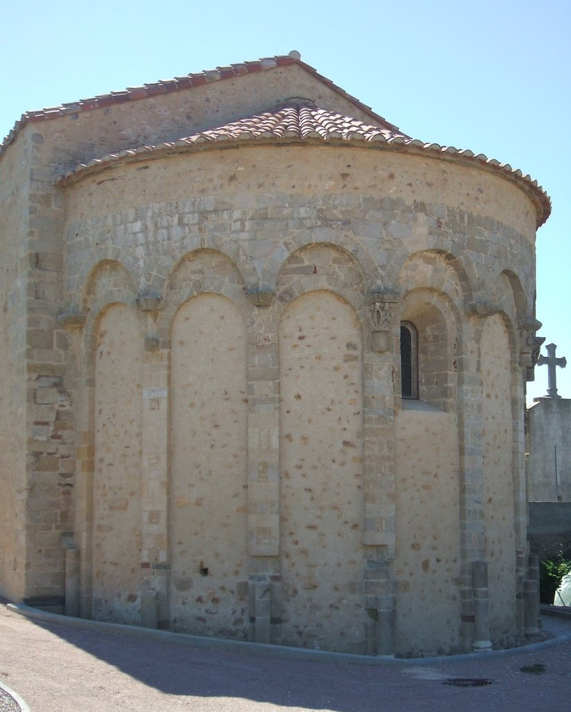 Villeneuve-de-la-Raho (département of Pyrénées-Orientales, Languedoc-Roussillon région, France) : Saint-Julien and Sainte-Basilisse chapel (XIIth century), former church of the village.